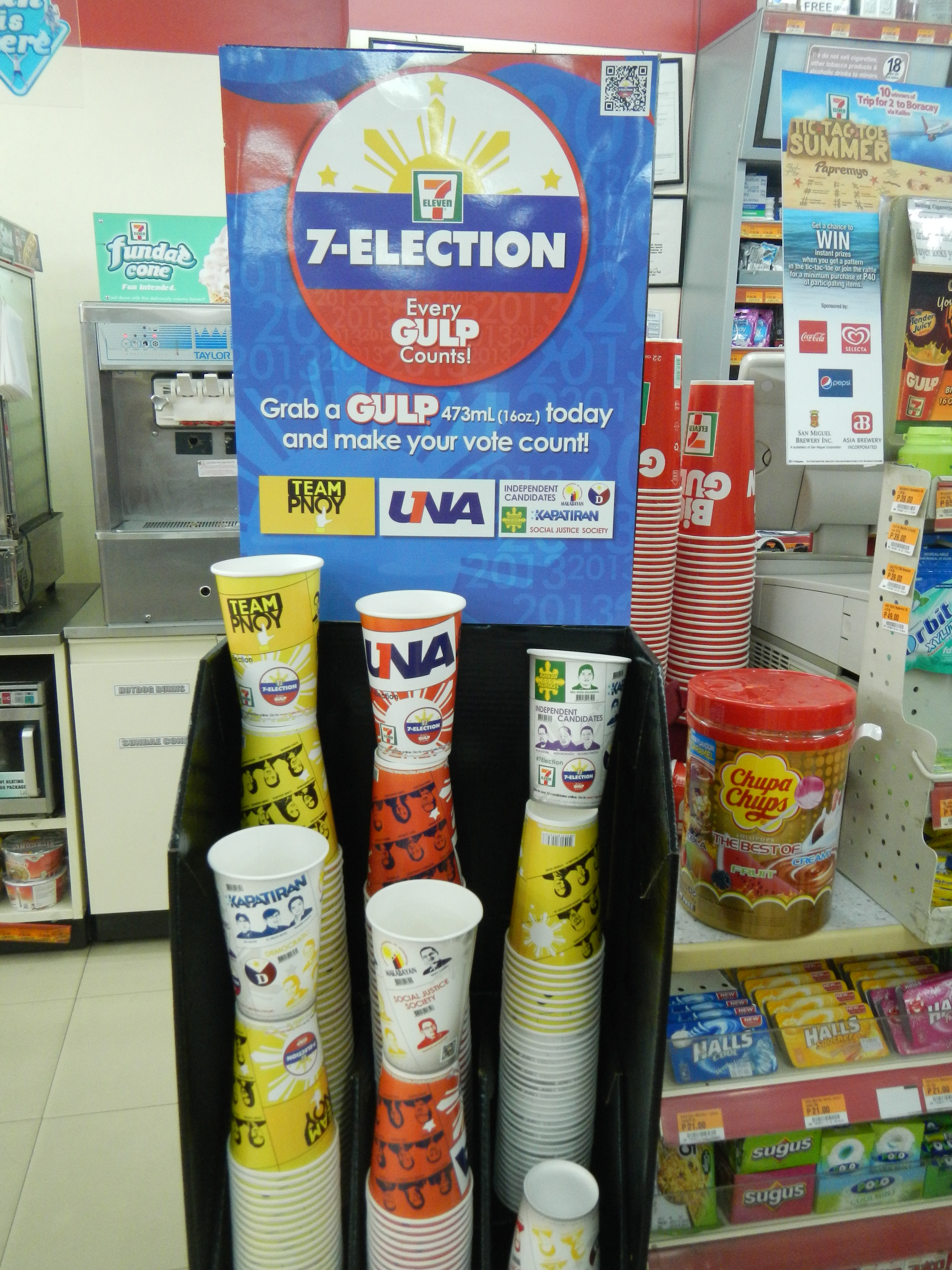 7-Eleven[1] at Baliuag, Bulacan store Philippine general election, 2013[2].